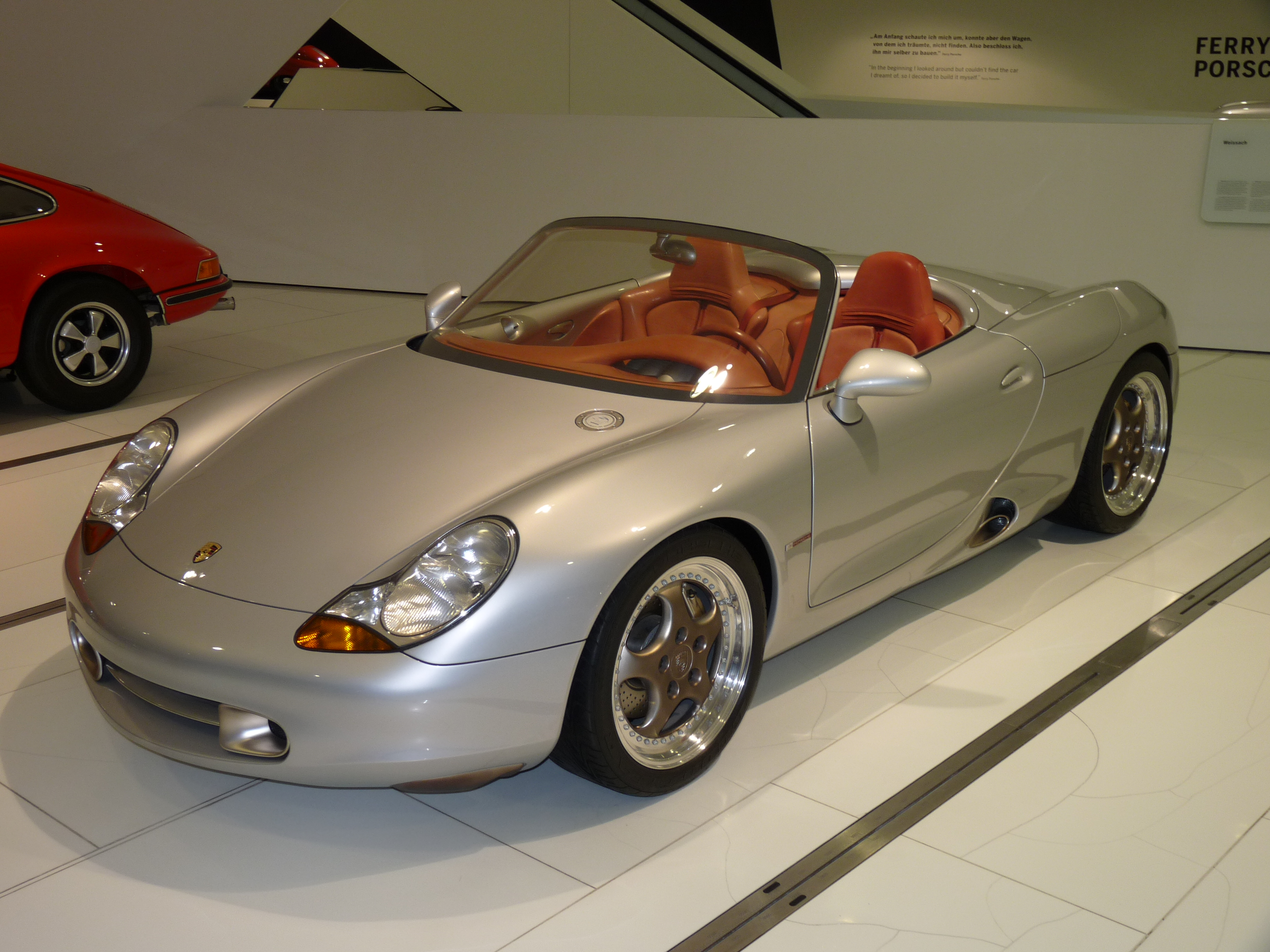 see filename for despcription - seen at PORSCHE MUSEUM in Stuttgart, Germany